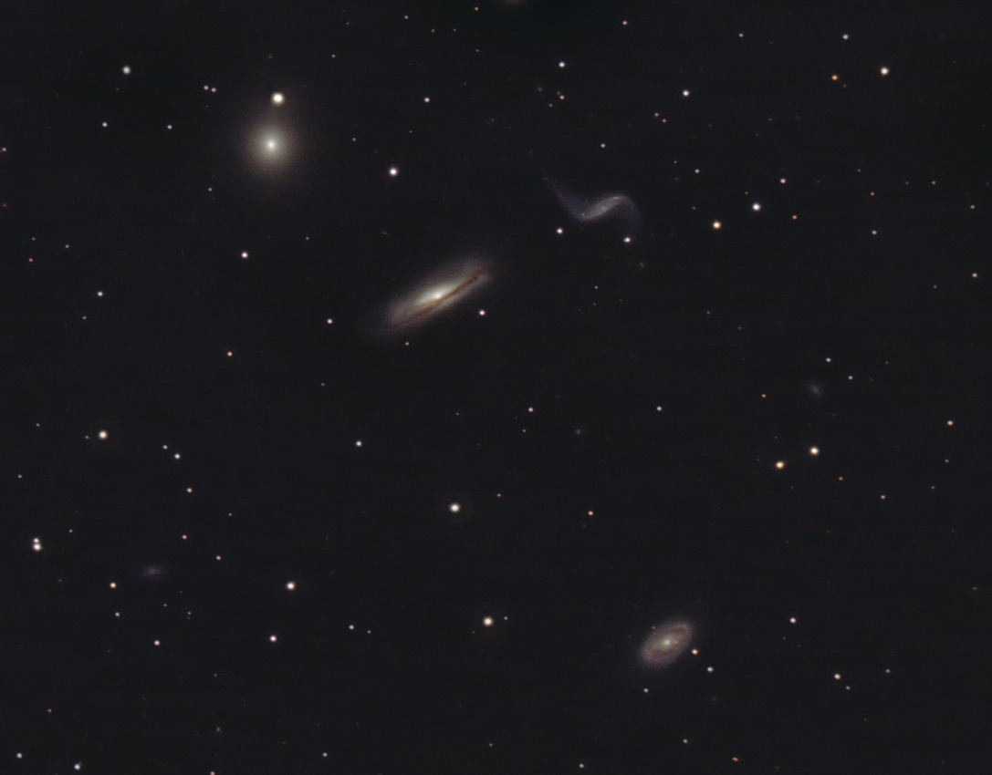 Hickson Compact Galaxy Group 44